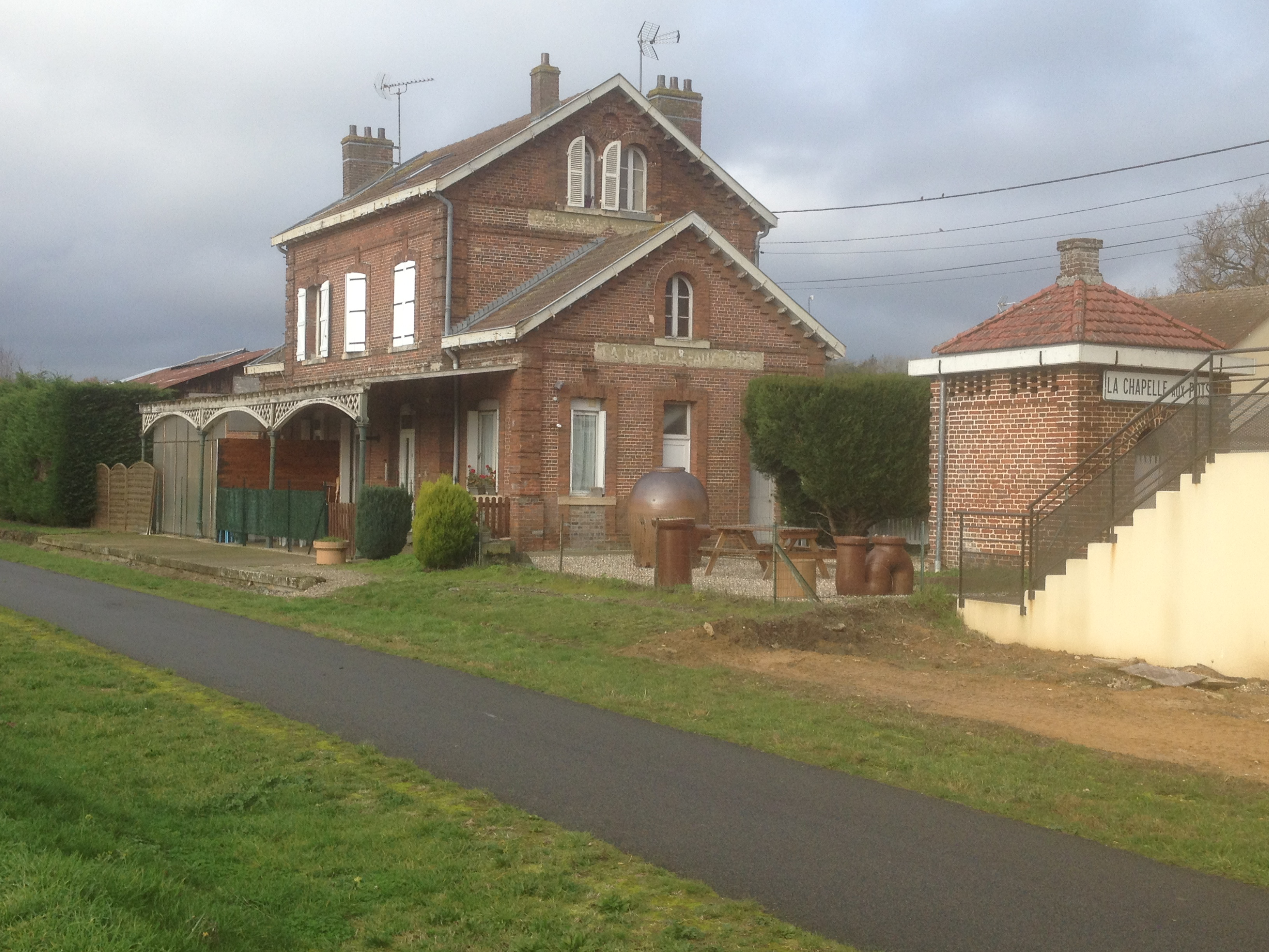 Lachapelle-aux-Pots railway station, on the old line from Goincourt to Gournay-Ferrières.